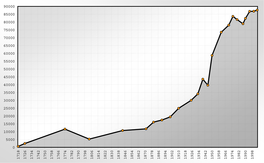 This image shows the population statistics of Ludwigsburg (Württemberg, Germany).